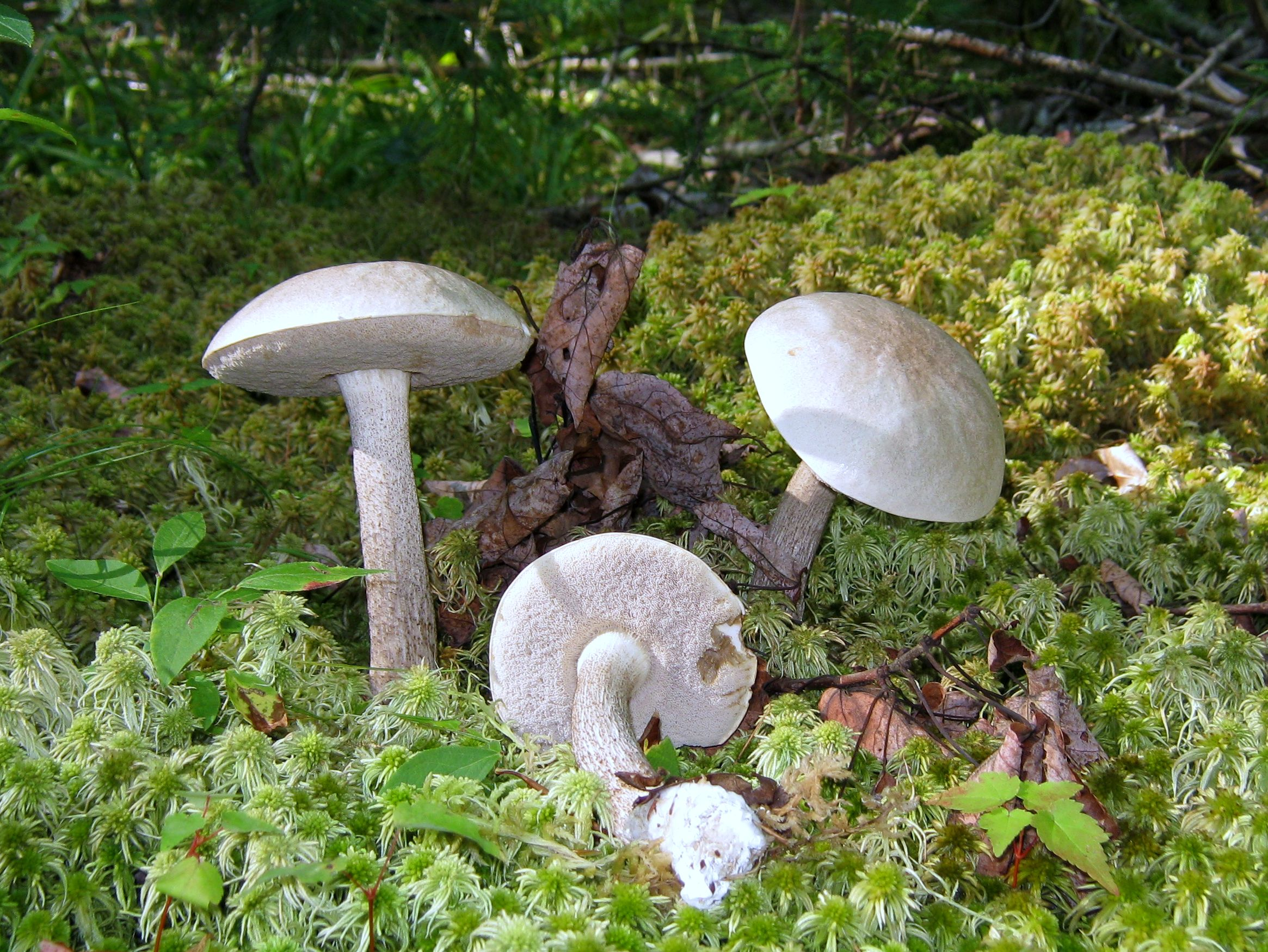 Fruit bodies of the bolete fungus Leccinum holopus (Rostk.) Watling. Photographed in Maine, USA.